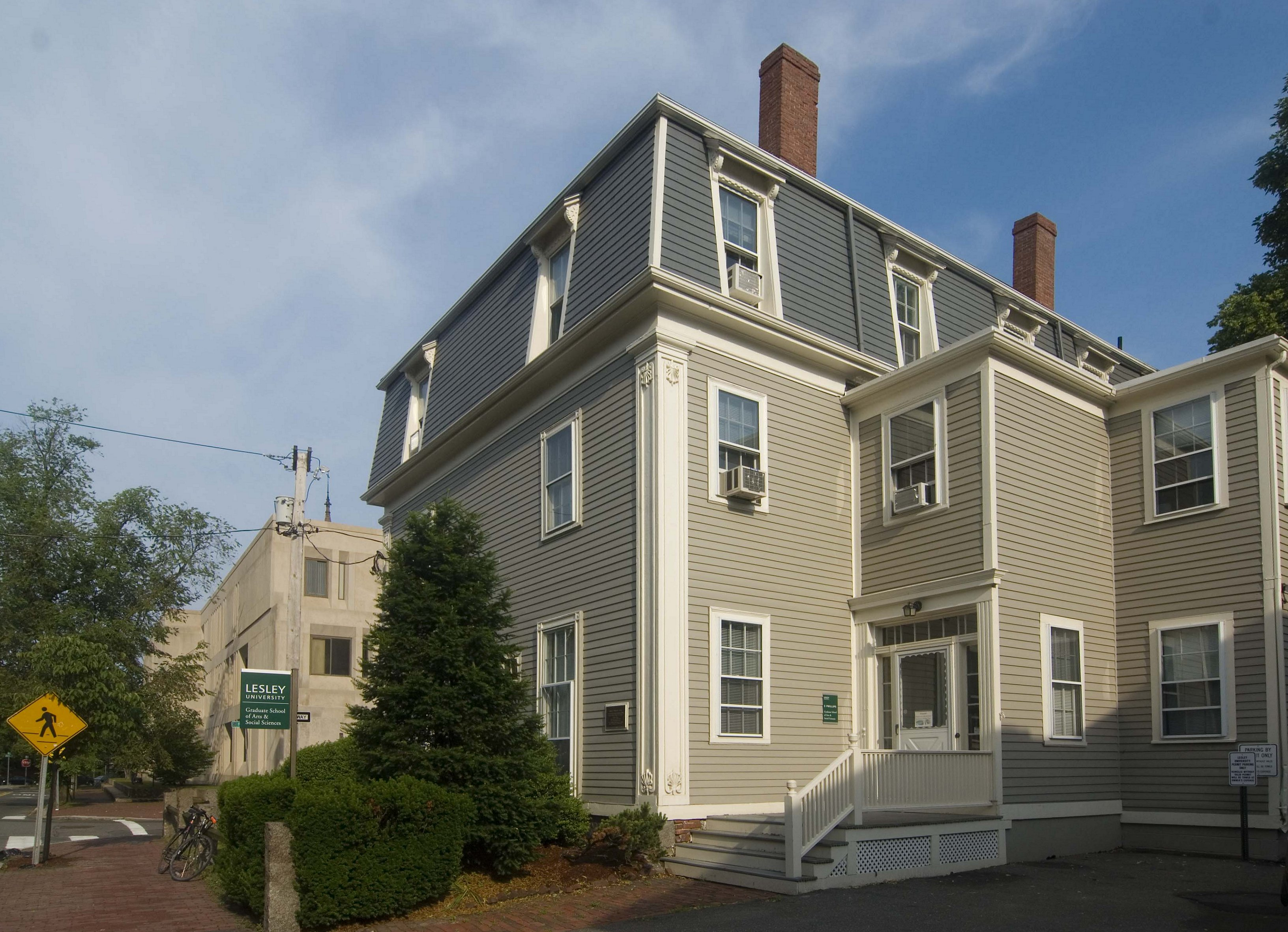 Charles Peirce's birthplace at 3 Phillips Lane. It is currently Lesley University's Graduate School of Arts and Social Studies